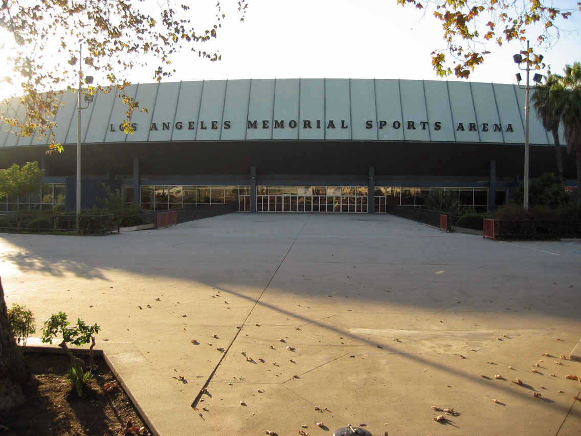 Description: Los Angeles Memorial Sports Arena Source: Photograph on 15.11.2005 Photographer: Pelladon Copyright: Copyright © 2005 Richard H. Kim